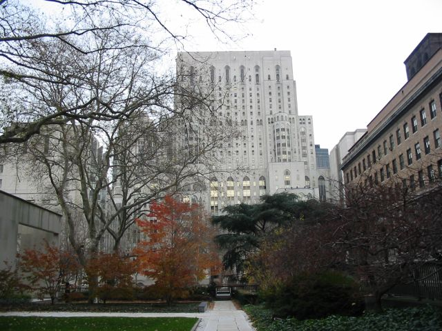 Picture of the Weill Cornell Medical Complex, seen from the Rockefeller University